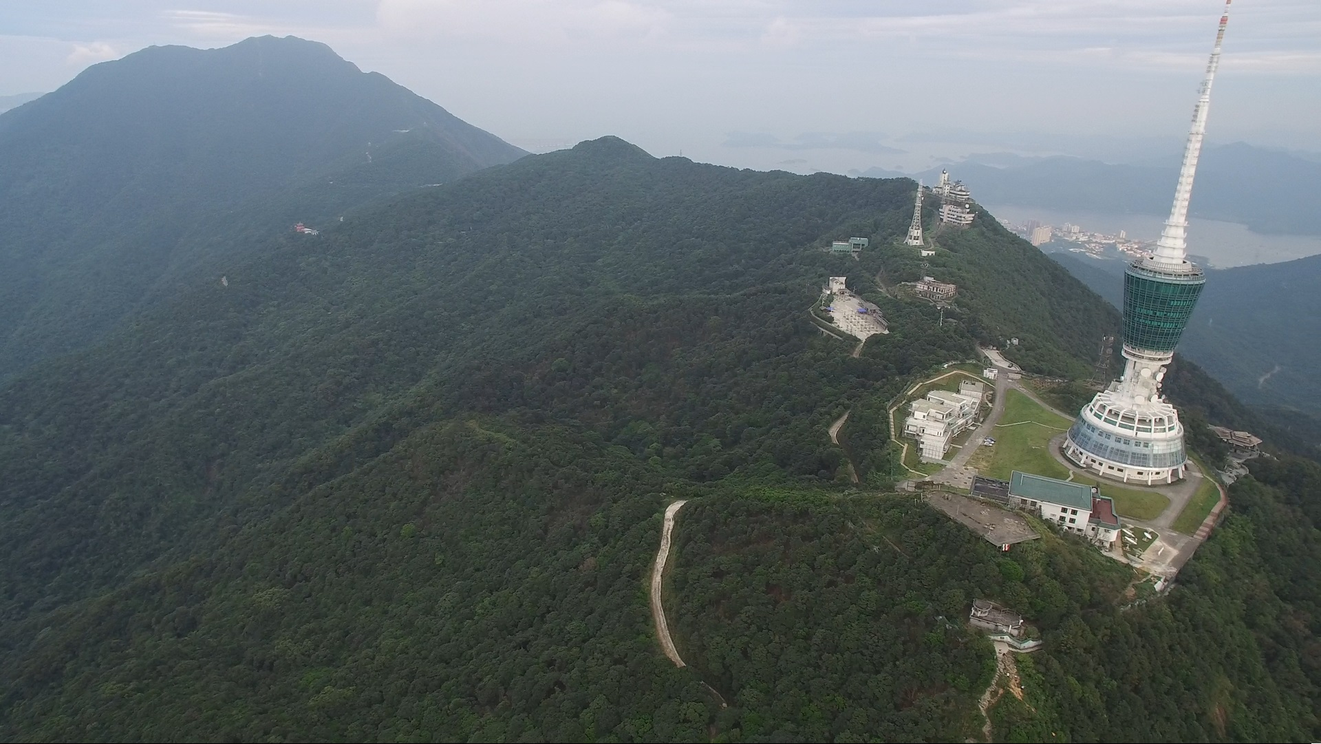 Shenzhen TV Tower with Wu Tong mountain in background